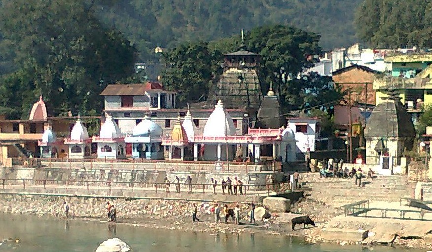 Cropped version of the file File:Bagnath Temple at Bageshwar Uttrakhand - panoramio.jpg